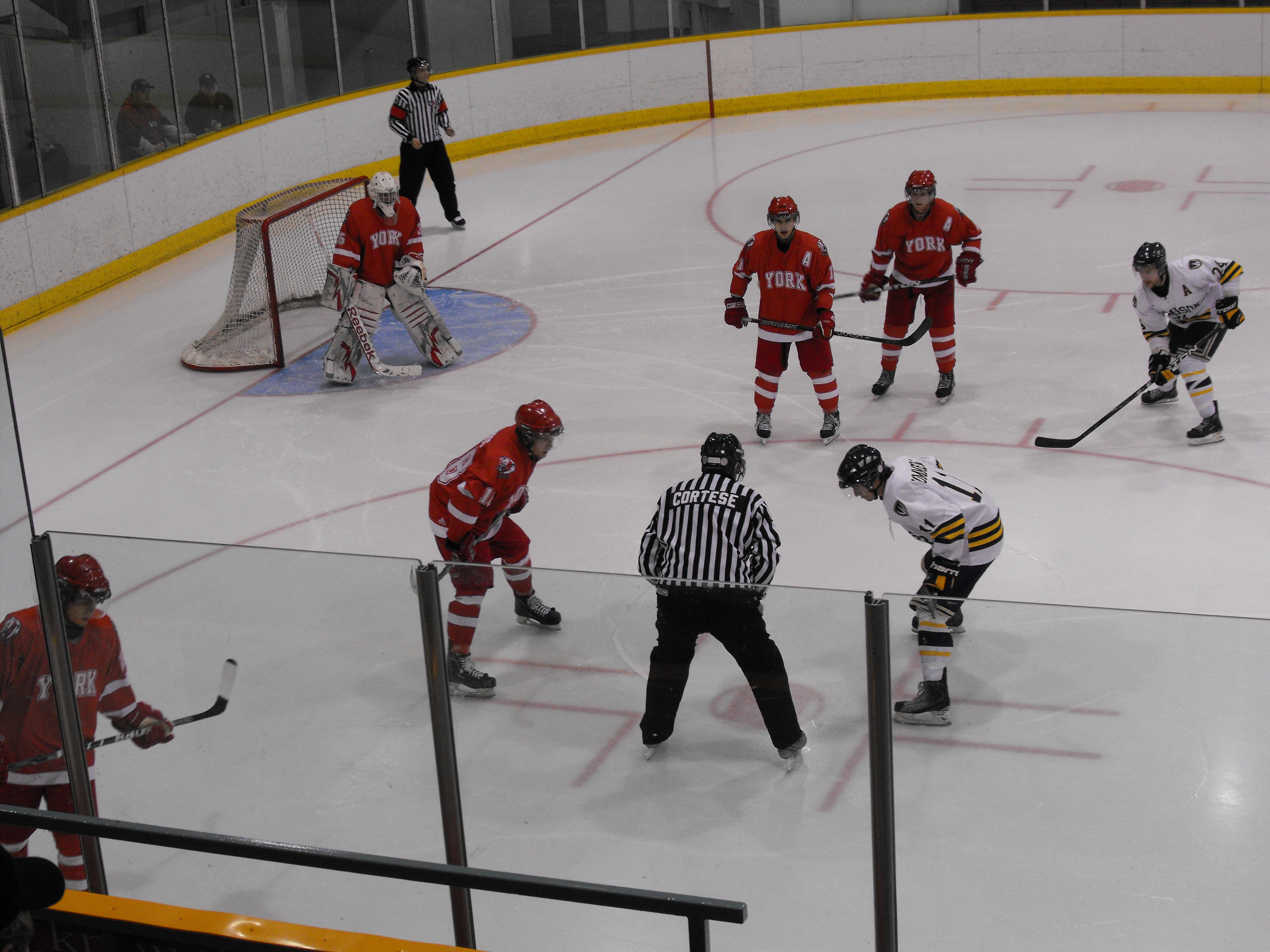 Photo taken by Devan Mighton of CIS men's hockey.